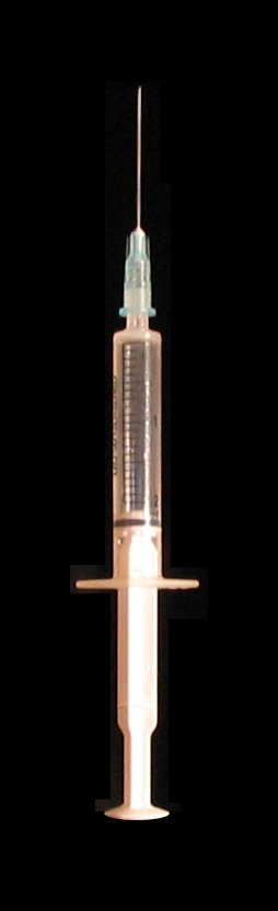 2 ml disposable syringe with 23G (0.6 x 30 mm) disposable hypodermic needle. Syringe is of brand Codan, made in Denmark. Crappy quality but works in small sizes. By me. Photo taken in 2006.